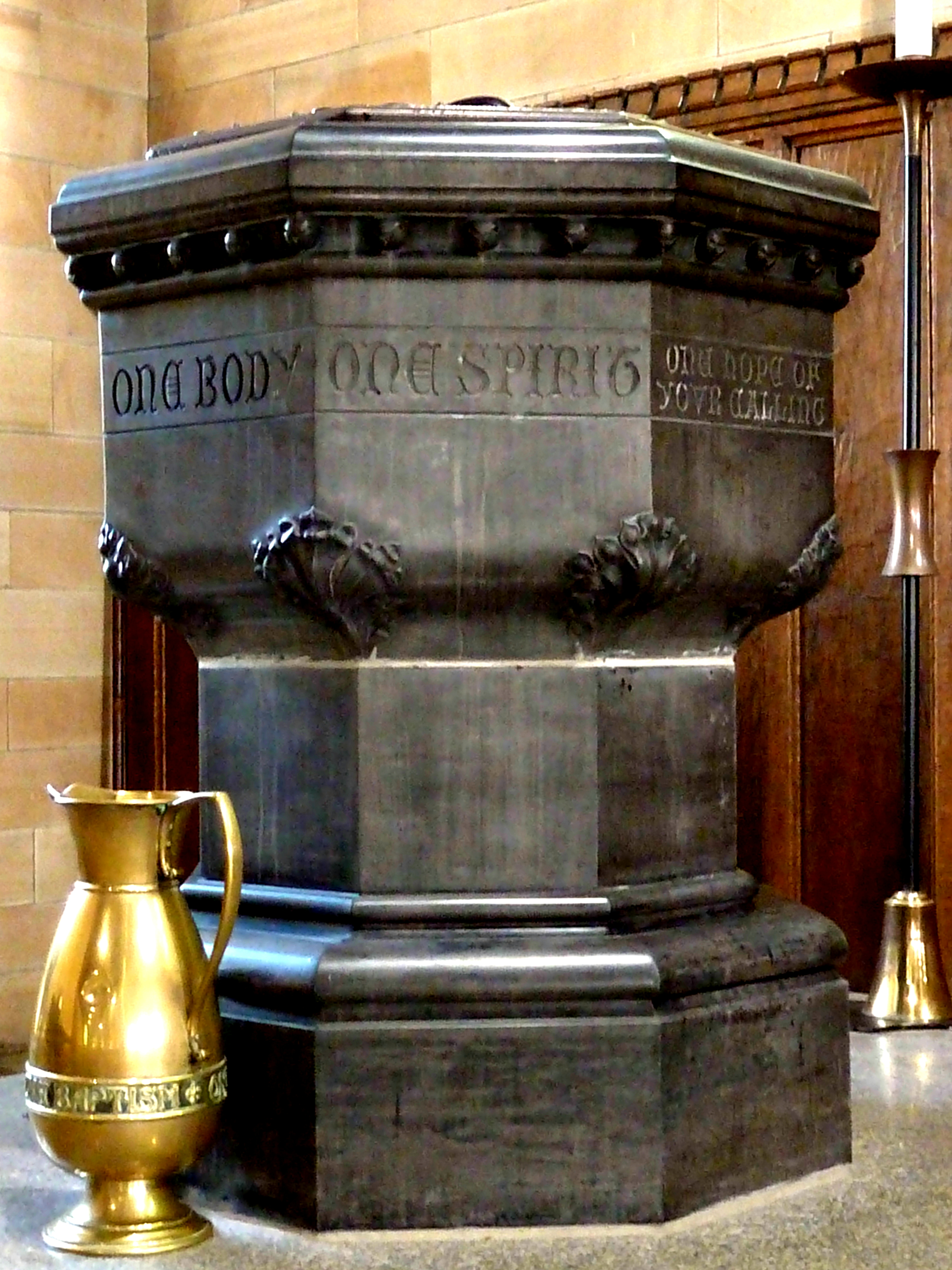 Interior of Church of St Paul, Mirfield, West Yorkshire, designed by William Swinden Barber in 1881. Showing black marble font of 1881, designed and commissioned by Barber. It sits on two Dalbeattie granite steps, and has been recently moved from the west end of the church, into the north side chapel area next to the chancel.